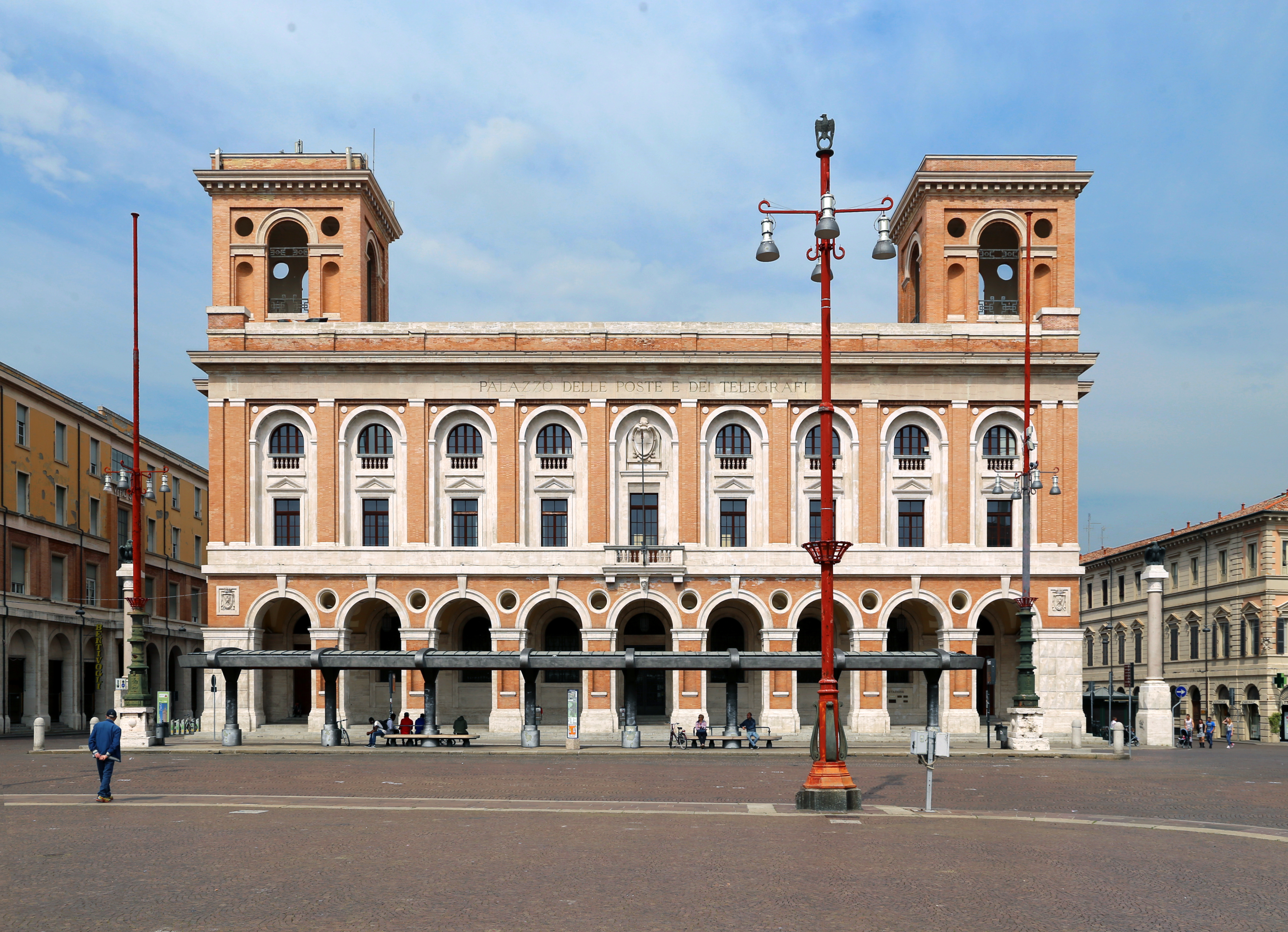 Palaces in Forlì